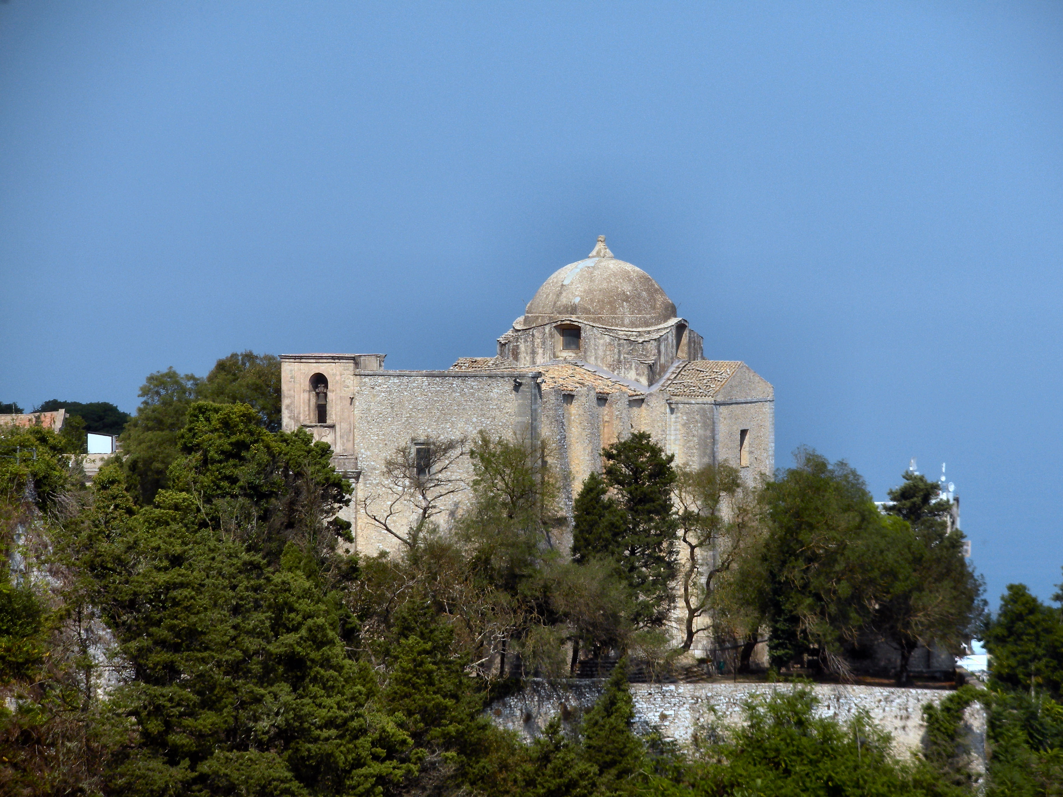 Erice (province of Trapani, Sicily, Italy), the church of St. John